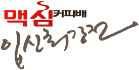 Maxim Cup logo